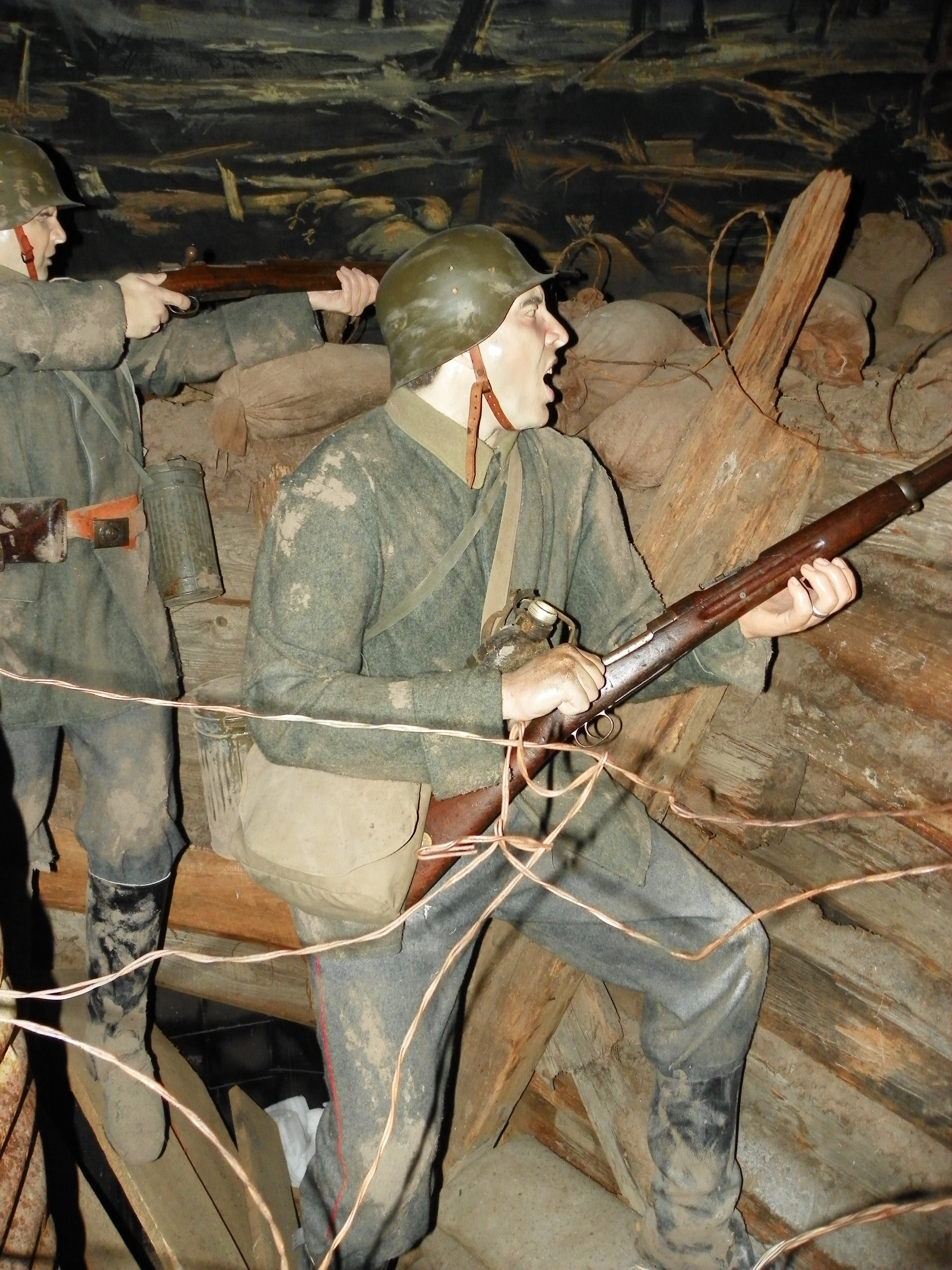 Picture of the WWI immersion environment at Fantasy of Flight in Polk City, FL. Figure represents a German soldier engaged in trench warfare.